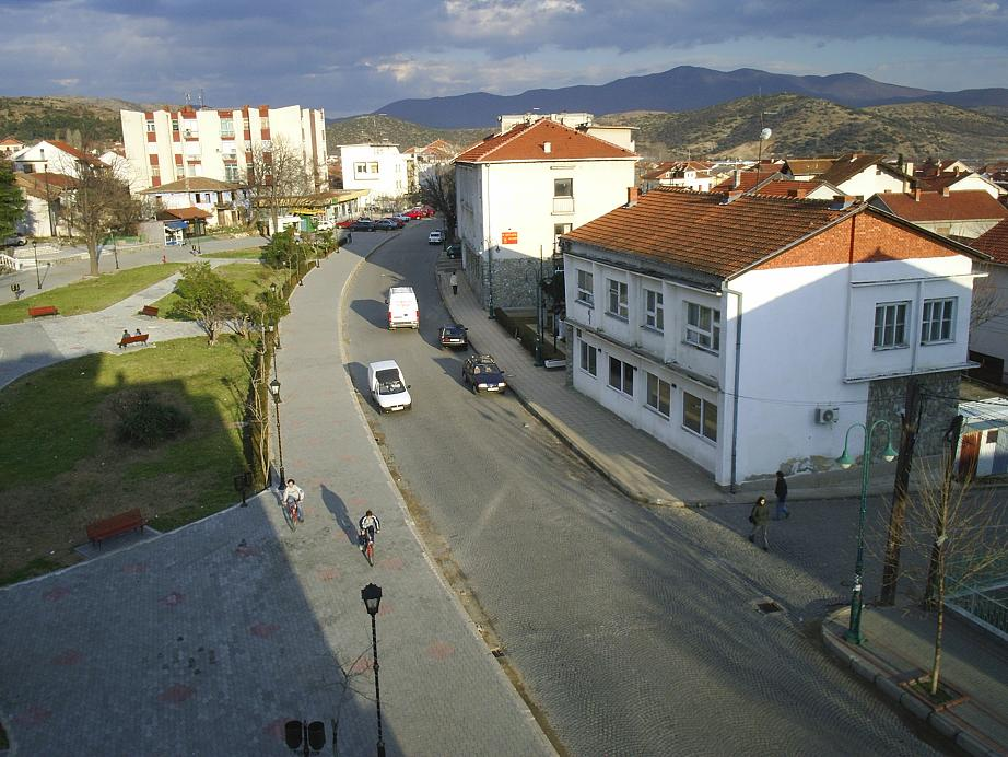 Bogdanci, a small city in Republic of Macedonia